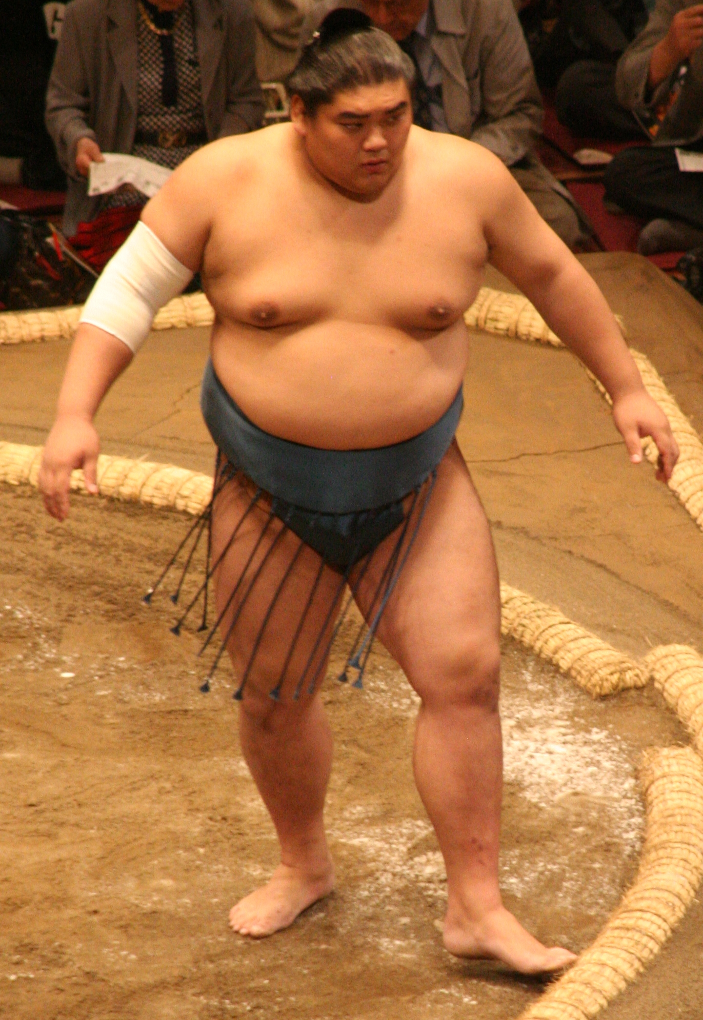 First day of 2009 May Sumo Tournament in Tokyo, Japan - Futeno